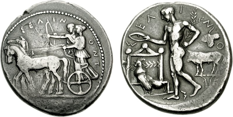 Sicily, Selinus. Circa 455-409 BC. AR Tetradrachm (16.97 g, 1h). Artemis, holding reins, driving quadriga left; beside her, Apollo standing left, drawing bow god Selinos standing left, holding palm frond and phiale over altar to left; before altar, cock standing left; to right, selinon leaf above bull standing left on basis.